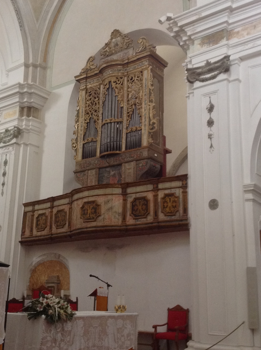 Baroque organ inside the Mother Church